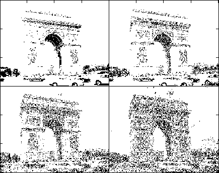 Processed image of the Arc de Triomphe.